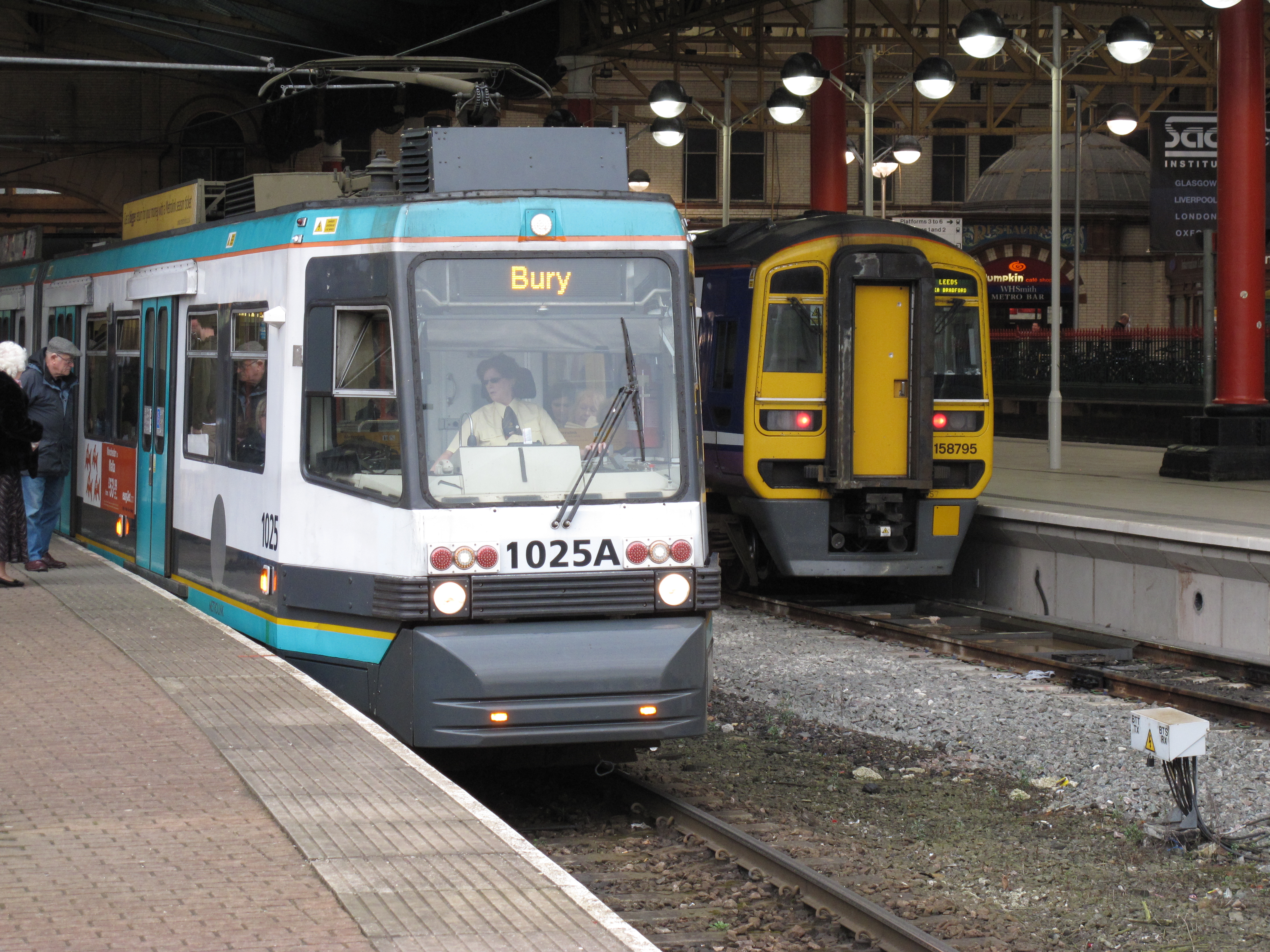 Metrolink tram & Northern train side by side at Manchester Victoria station.